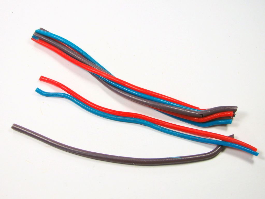 Twizzlers - twisted berry flavor, a candy made by The Hershey Company, USA